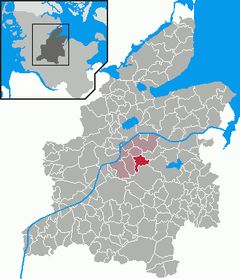 Locator maps of municipalities in Schleswig-Holstein - District Rendsburg-Eckernförde